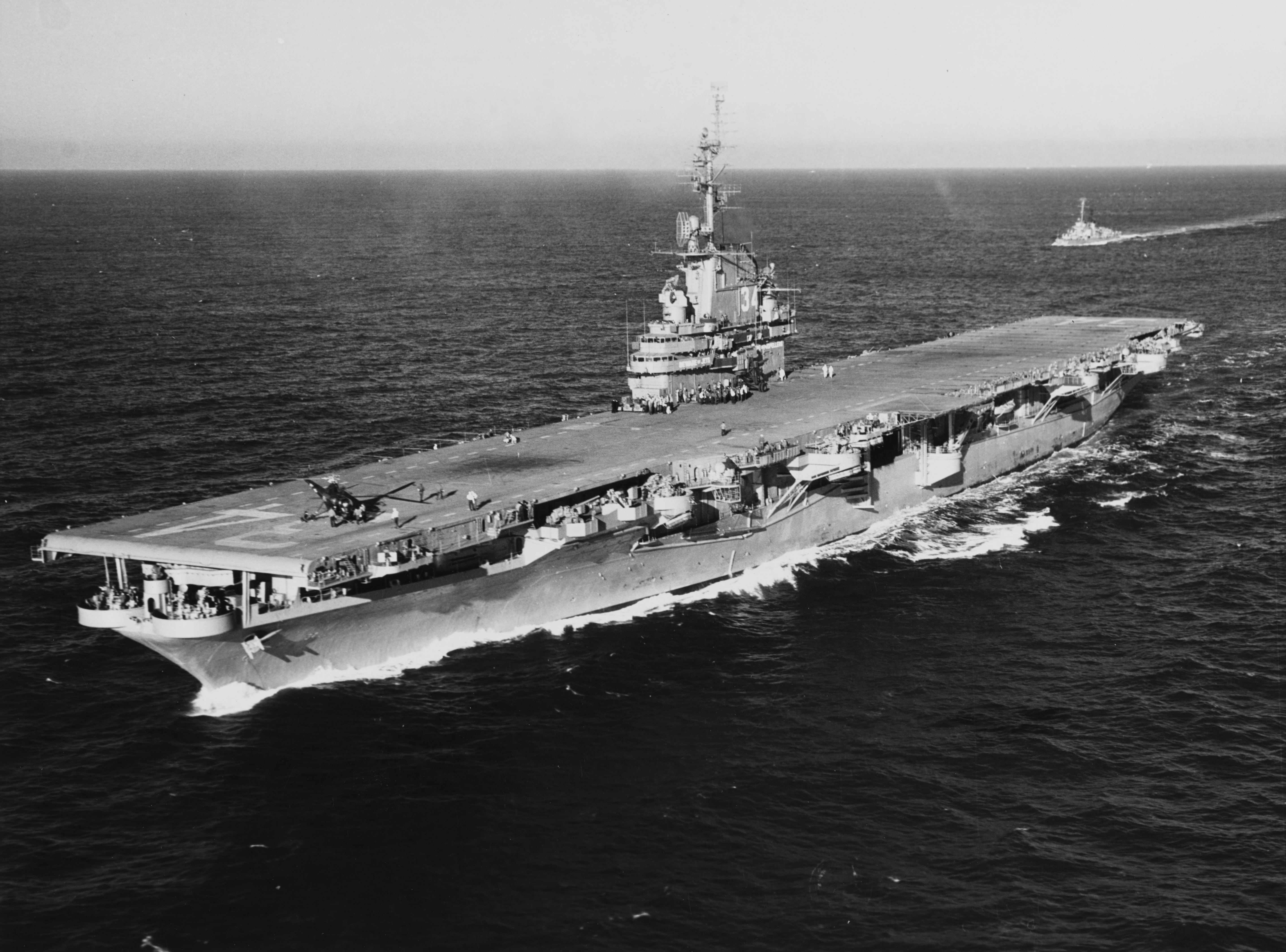 The U.S. Navy aircraft carrier USS Oriskany (CV-34) underway off New York City (USA), 6 December 1950, while en route to conduct carrier qualifications off Jacksonville, Florida (USA).